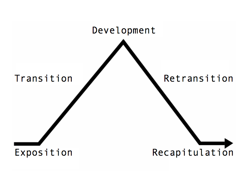 Sonata form pyramid: Exposition: Transition, Development: Retransition, Recapitulation. After Image:Freytags pyramid.svg dramatic structure.